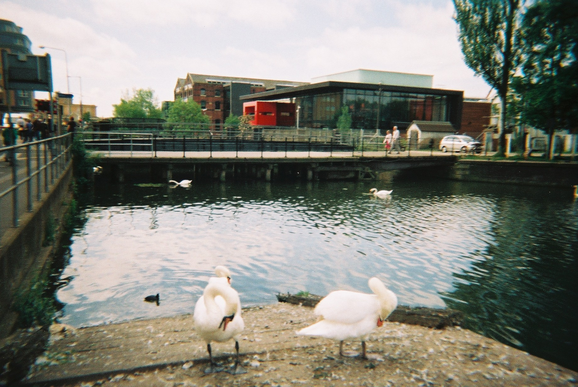 The Engine Shed, home of the University of Lincoln's Students' Union. Lincoln, England, UK